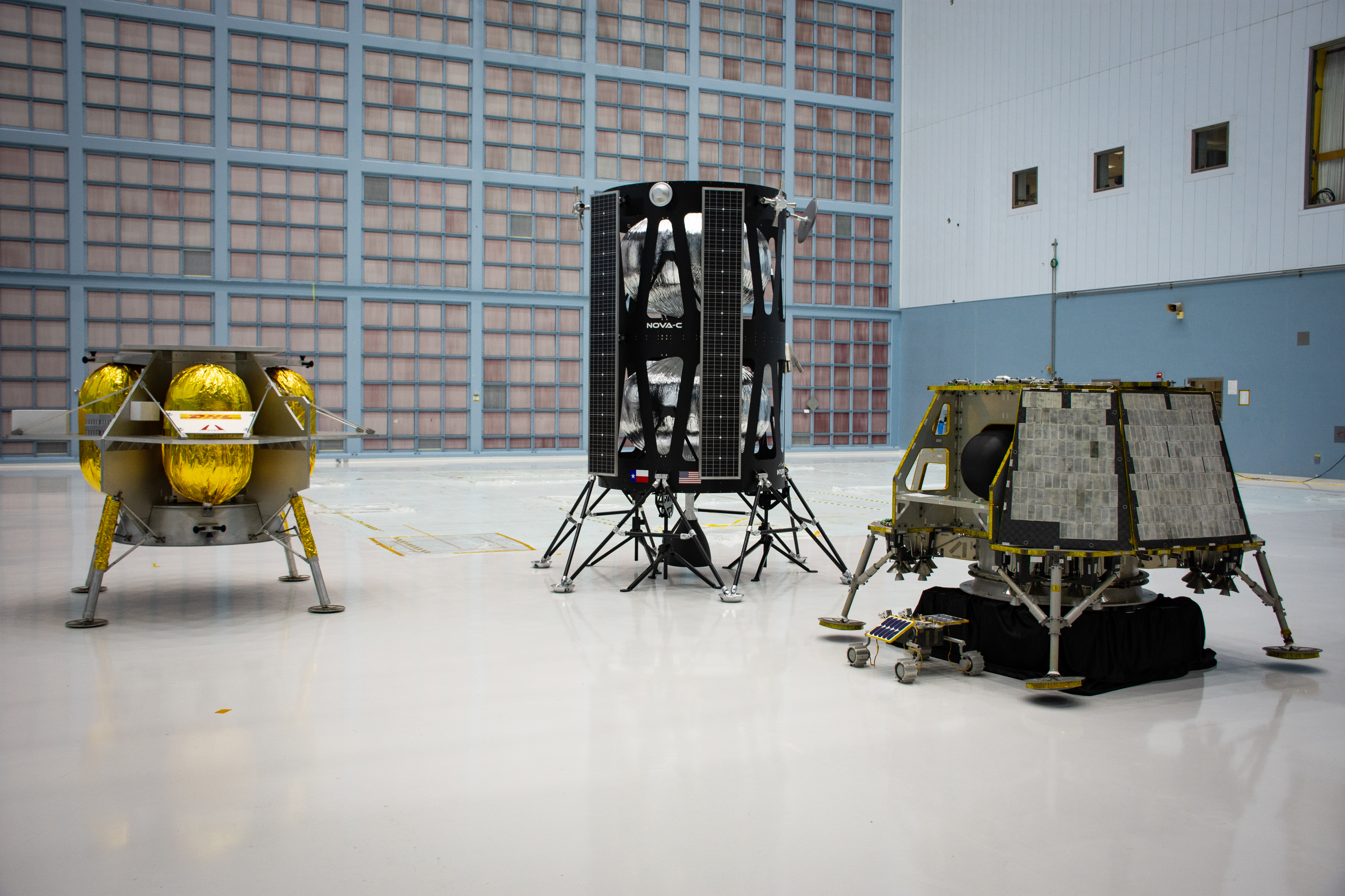 NASA has selected three commercial Moon landing service providers that will deliver science and technology payloads under Commercial Lunar Payload Services (CLPS) as part of the Artemis program. Each commercial lander will carry NASA-provided payloads that will conduct science investigations and demonstrate advanced technologies on the lunar surface, paving the way for NASA astronauts to land on the lunar surface by 2024. The selections are: • Astrobotic of Pittsburgh has been awarded $79.5 million and has proposed to fly as many as 14 payloads to Lacus Mortis, a large crater on the near side of the Moon, by July 2021. • Intuitive Machines of Houston has been awarded $77 million. The company has proposed to fly as many as five payloads to Oceanus Procellarum, a scientifically intriguing dark spot on the Moon, by July 2021. • Orbit Beyond of Edison, New Jersey, has been awarded $97 million and has proposed to fly as many as four payloads to Mare Imbrium, a lava plain in one of the Moon’s craters, by September 2020. All three of the lander models were on display for the announcement of the companies selected to provide the first lunar landers for the Artemis program, on Friday, May 31, 2019, at NASA's Goddard Space Flight Center in Greenbelt, Md. Read more: Credit: NASA/Goddard/Rebecca Roth